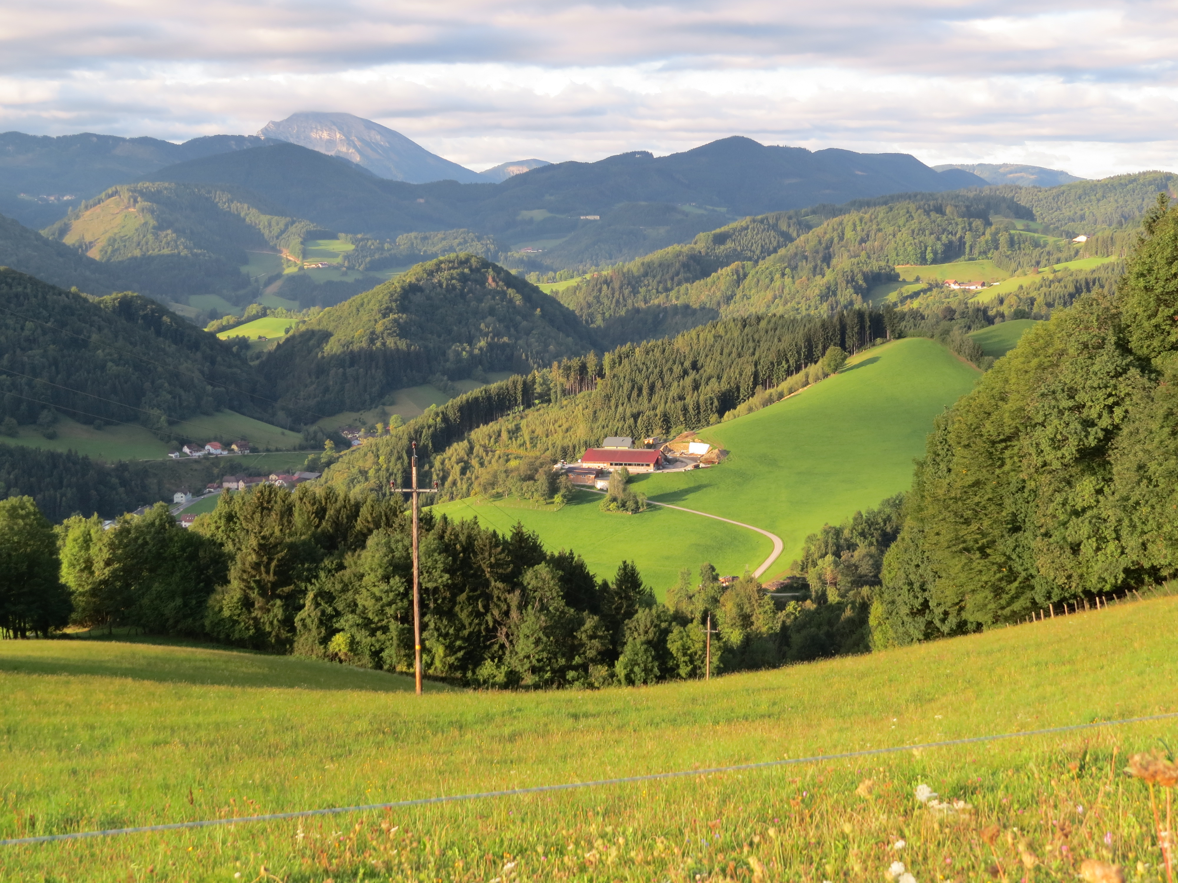 View from Frankenfelsberg to Ötscher, Frankenfels, Austria